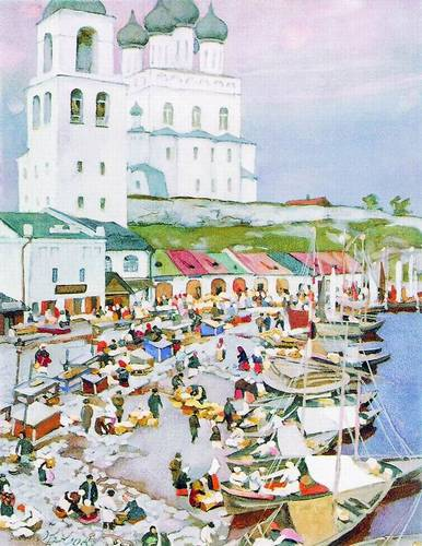 Boats by the river bank. Pskov. 1904